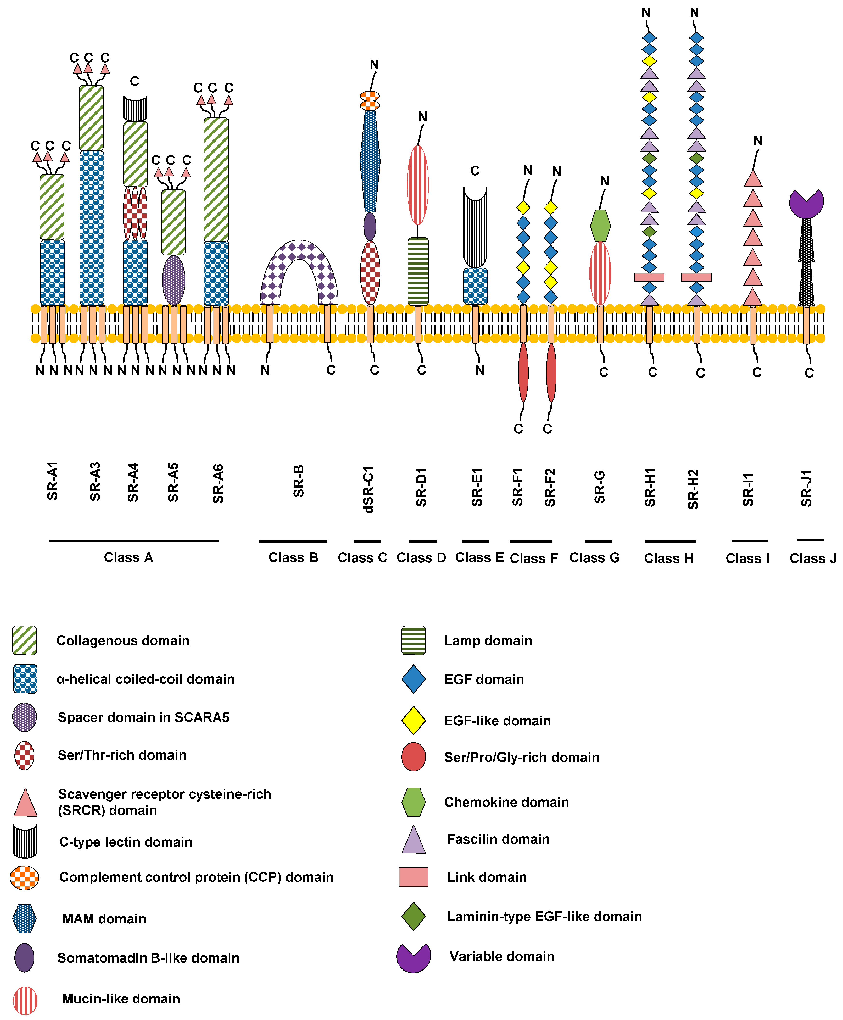 Schematic overview of the SR membrane protein supergroup. The different classes are denoted A-J and specific domains are denoted by the codes shown.